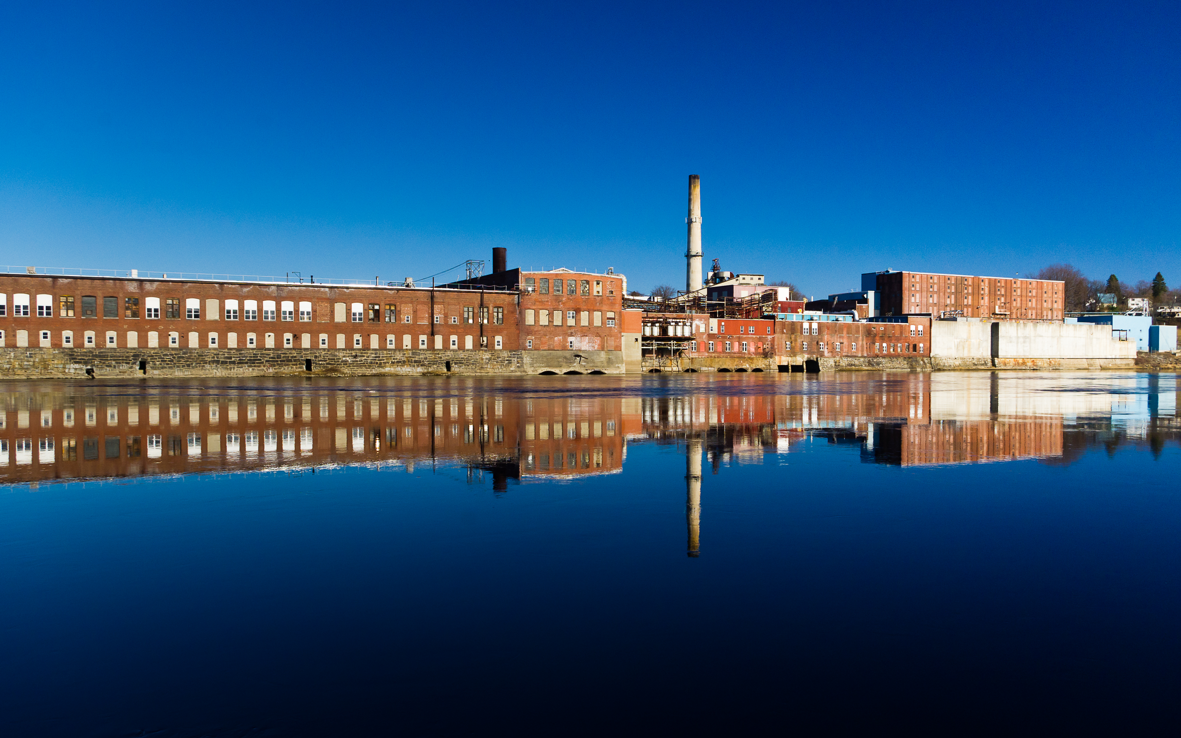 I'd forgotten just how useful a CPL filter actually is! Taken in Waterville, Maine